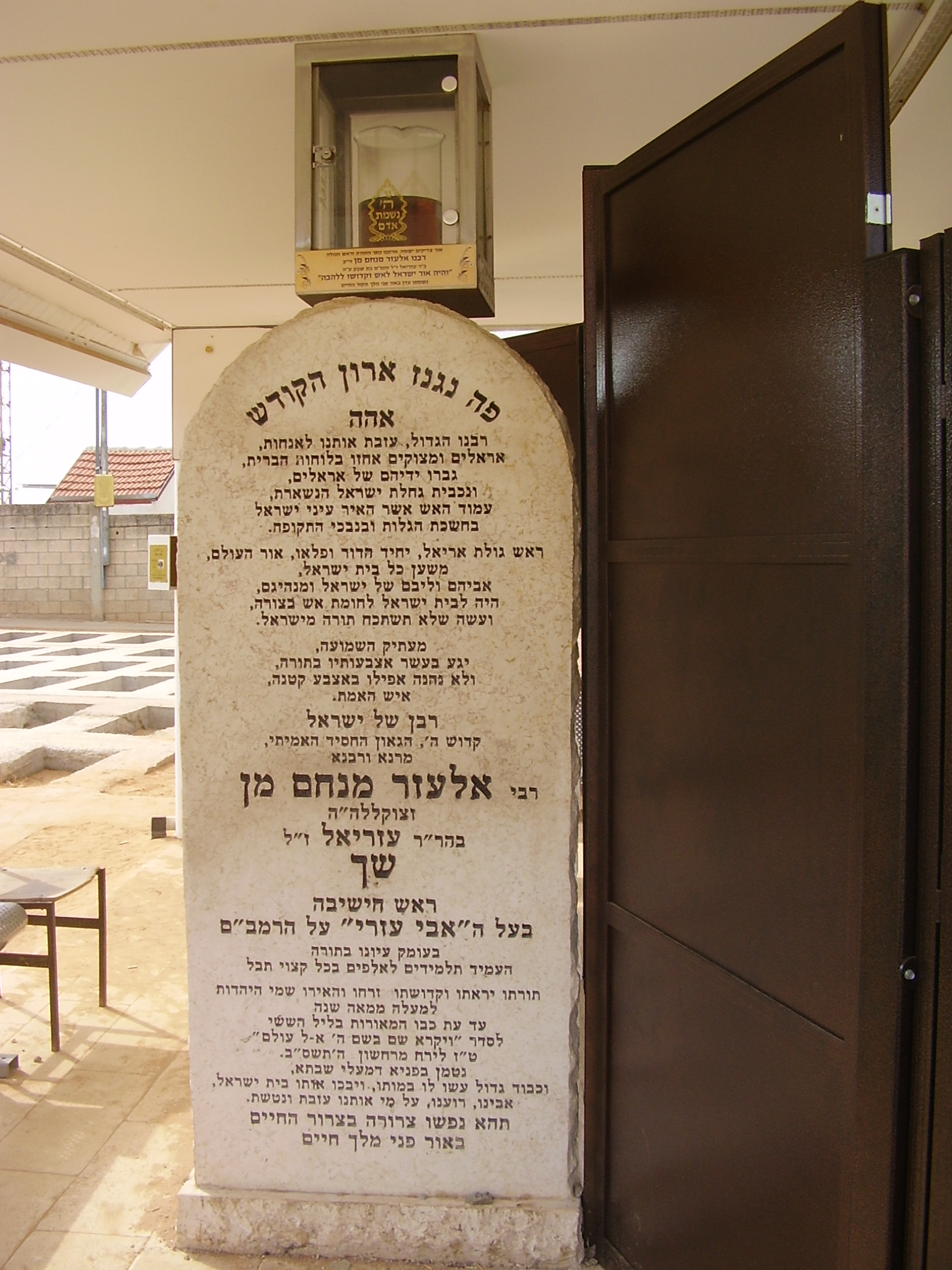 tomb of rabbi elazar shach in bnei brak